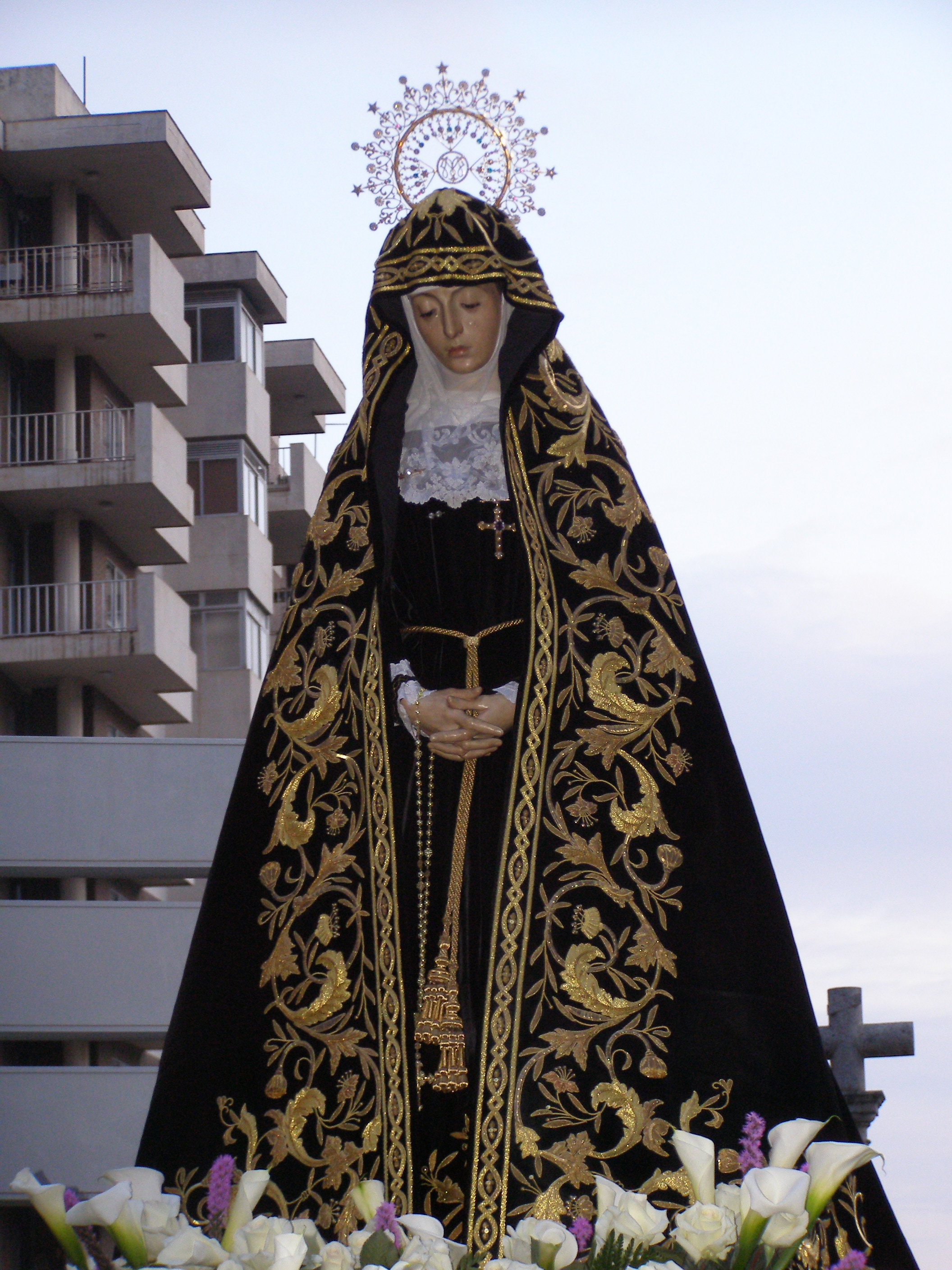 Author: Wikipedia user "marox79", i.e. myself. Taken: April 6, 2007 using my Olympus SP-500 UZ